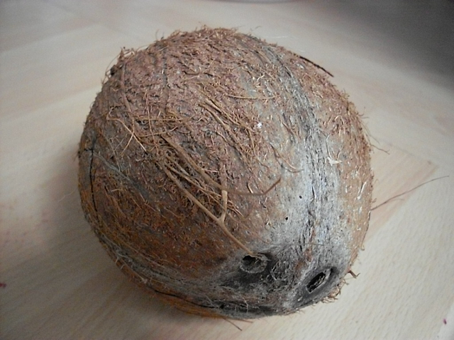 Ivory Coastian coconut.